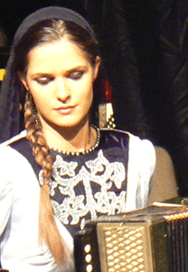 Circassian girl